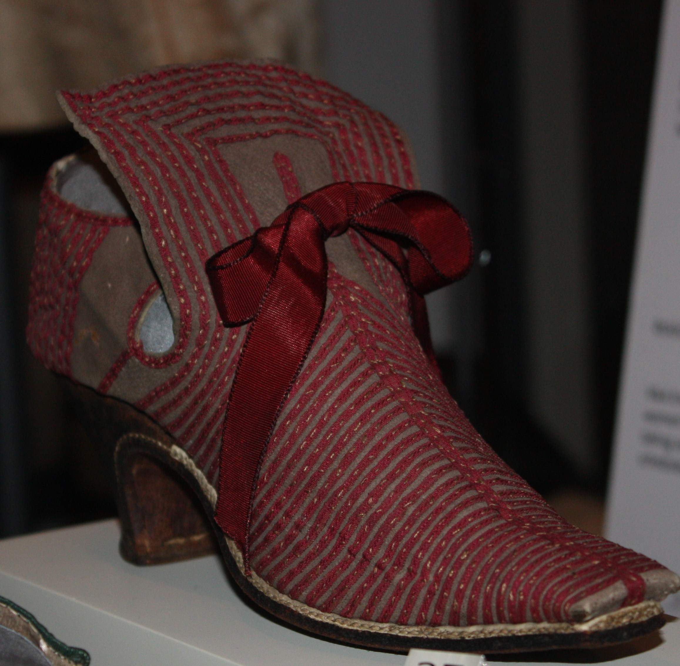 Red woman's shoe Leather, trimmed with silk braid and wooden heels; reproduction ribbons English 1670-1680 Given by Talbot Hughes Museum no. T.107-1917 Buff leather woman's shoe; red silk stiching; the silk fabric is applied in a striped pattern; along each stripe, yellow stiching is seen. Wikipedia Loves Art at the Victoria and Albert Museum This photo of item # [1] at the Victoria and Albert Museum was contributed under the team name "va_va_val" as part of the Wikipedia Loves Art project in February 2009. Victoria and Albert Museum The original photograph on Flickr was taken by Val_McG—please add a comment to the original Flickr page whenever a use has been made on Wikipedia or another project. Project galleries on Flickr: this institution, this team